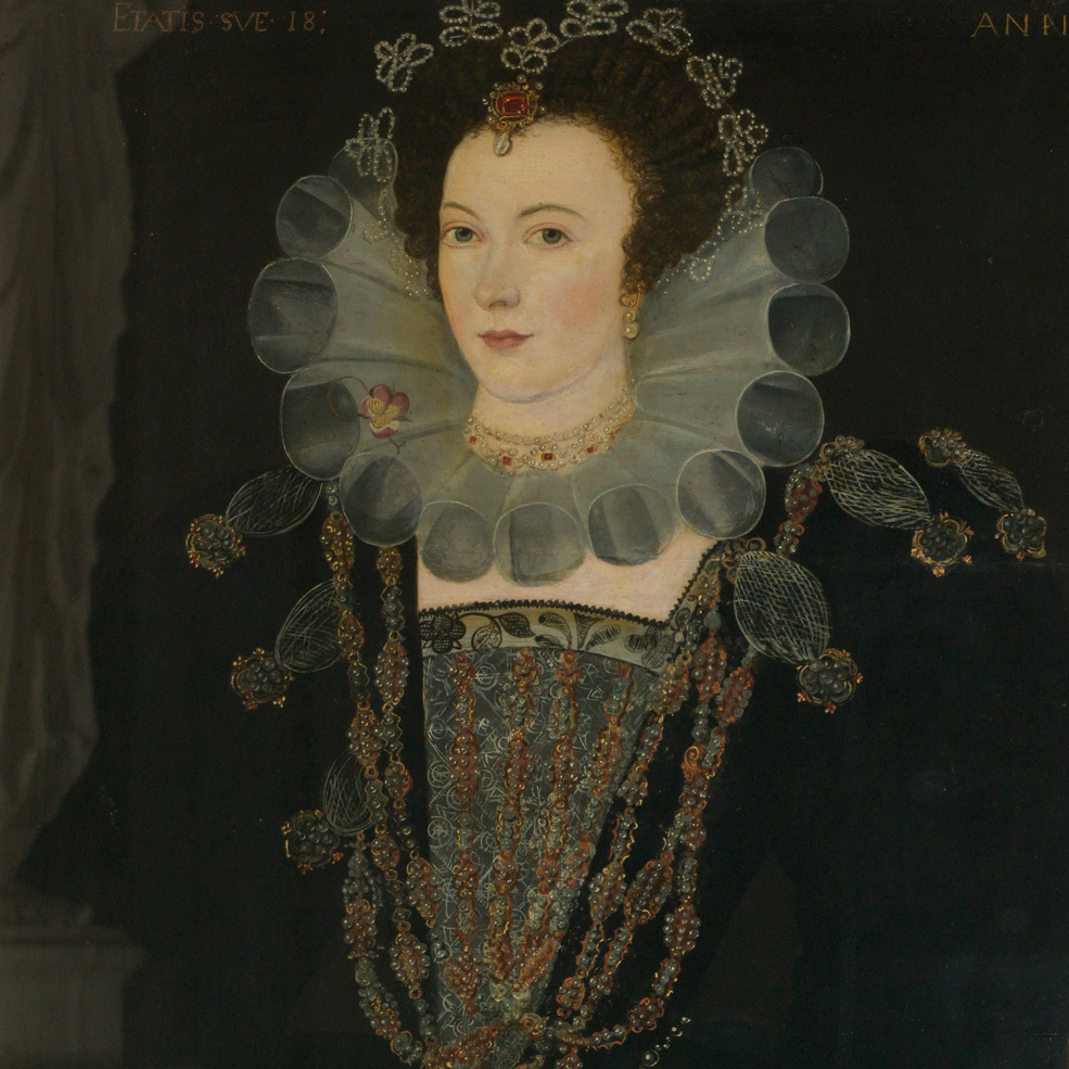 from a double portrait by unknown artist of two sisters, Anne (Fitton) Newdigate (1574–1618) and Mary Fitton (c. 1578–1641) - See more at